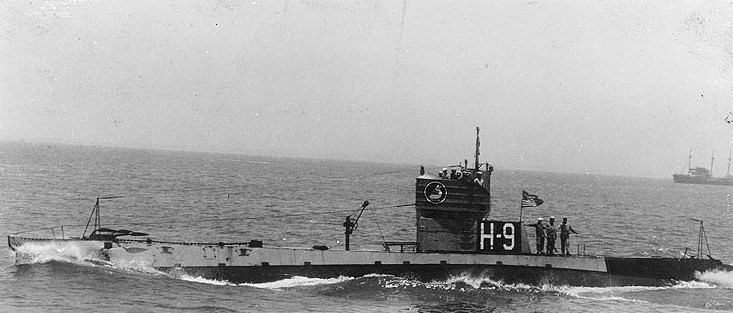 NH-53613 USS H-9 underway, circa 1922 (cropped)